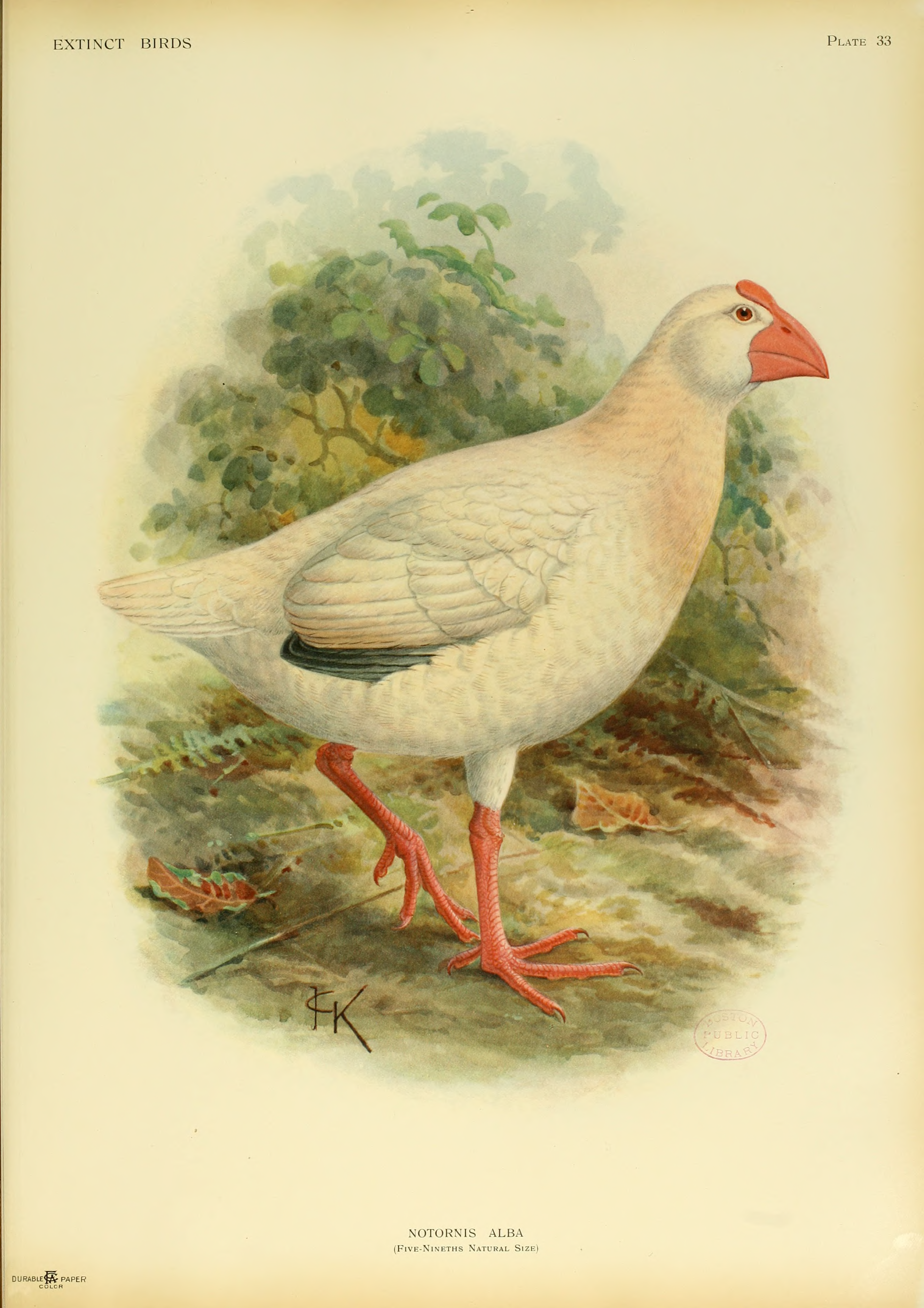 The Lord Howe Swamphen or White Gallinule, Porphyrio albus, was a large bird in the family Rallidae endemic to Lord Howe Island, Australia.